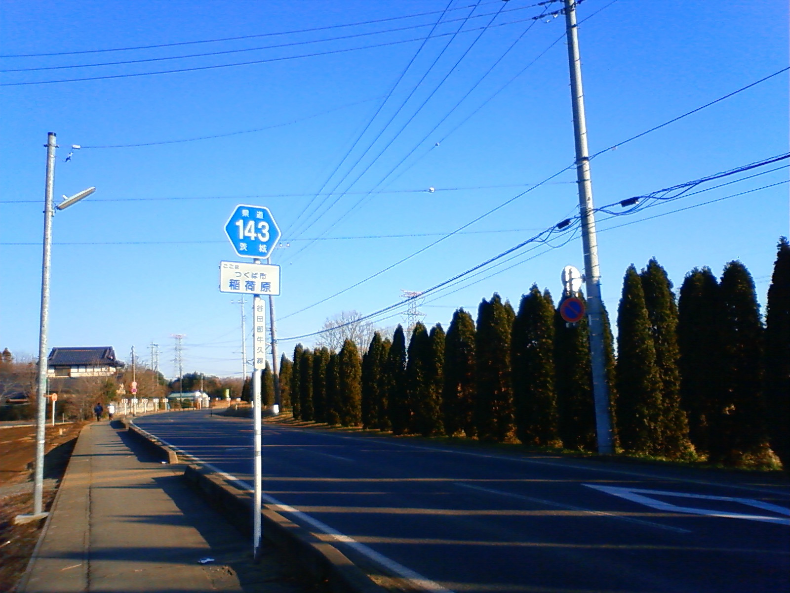 This is a landscape of Ibaraki prefectural road No. 143 Yatabe-Ushiku Line in Inarihara, Tsukuba, Japan.